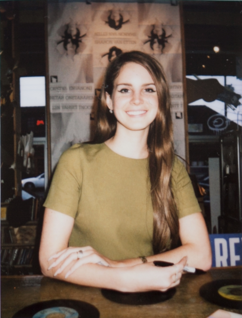 Lana Del Rey promoting her album in March 2012, in Seattle, WA.